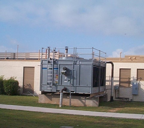 HVAC, factory-assembled cooling tower installed at a hospital.